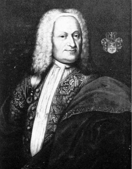 Ernst Alexander Otto Cornelius Pagenstecher (1697-1752), Oil on Canvas